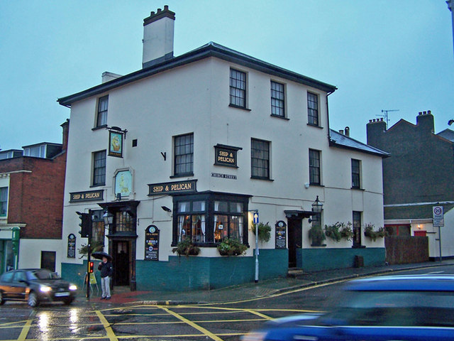 The Ship and Pelican Public House. Located in Fore Street, Heavitree, Exeter, at the junction with Church Street, and directly opposite the Heavitree Public House. The Ship & Pelican is the oldest public house in Heavitree, dating back to at least 1740. The Ship Inn issued 1½d copper tokens from 1890 when it was part of Algar and Crowson's Windsor Brewery Group. The name was changed to Ship and Pelican in the 1980's and it is a Grade II listed building. See also 1639118.